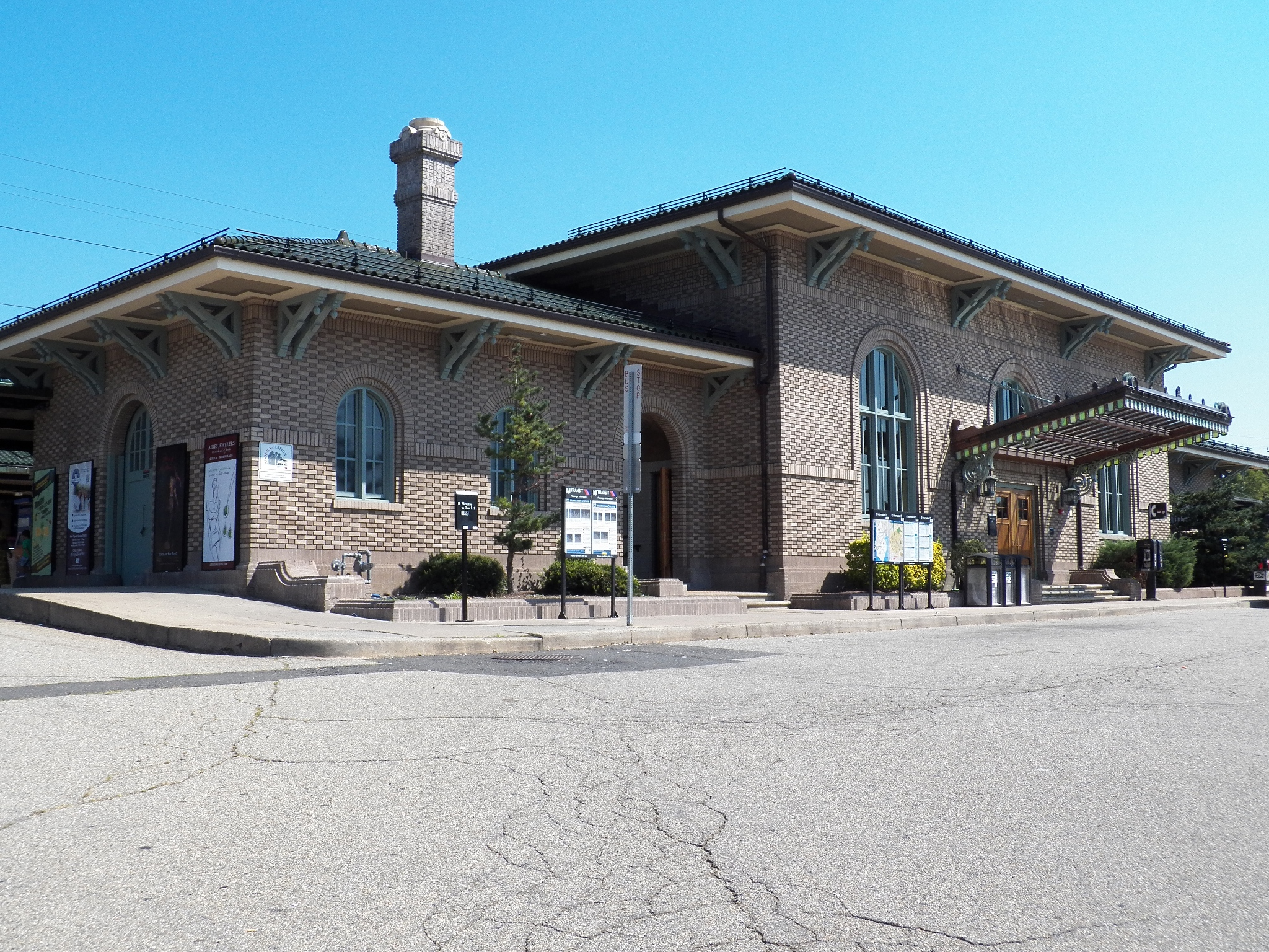 The station house is open for only a few hours each weekday.